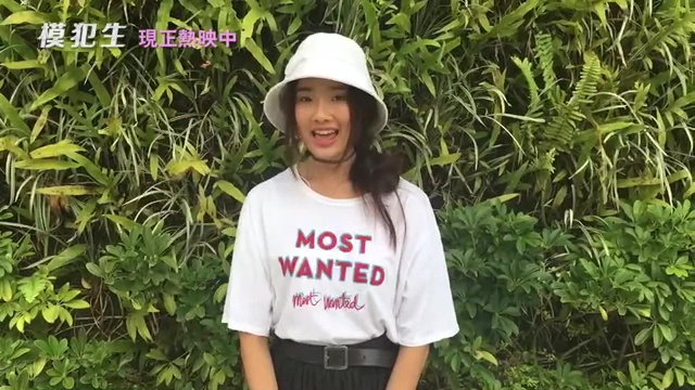 Chutimon Chuengcharoensukying from a promotional video clip for the Taiwan release of Bad Genius